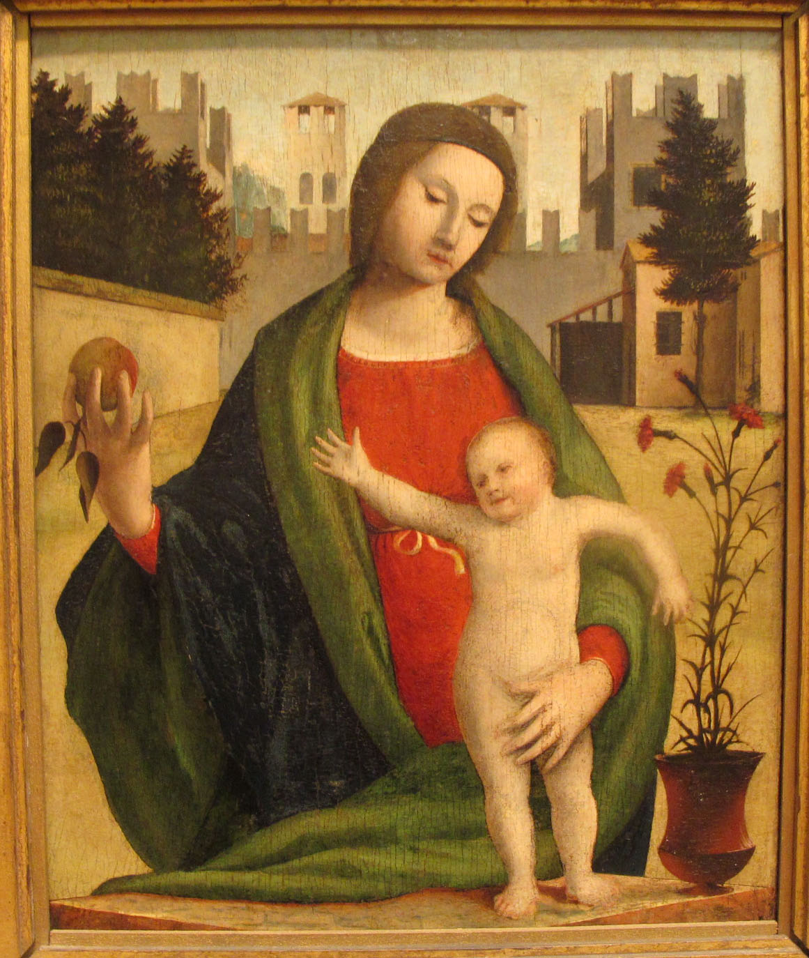 Madonna and Child, probably before 1508 Bramantino (Bartolomeo Suardi) (Italian, Milanese, active by 1490, died 1530) Tempera on wood. Overall 13 1/2 x 11 1/4 in. (34.3 x 28.6 cm), painted surface 13 1/2 x 10 7/8 in. (34.3 x 27.6 cm) This painting resides at The Metropolitan Museum of Art. photograph by Joel Garten